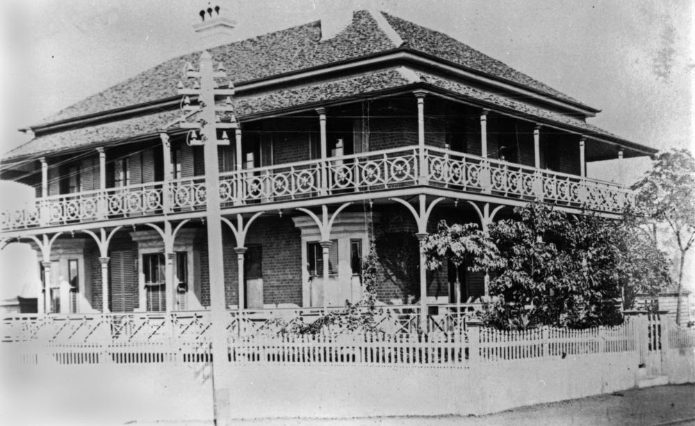 Home of Dr. Joseph Bancroft in Ann Street, Brisbane, ca. 1882. Photograph of the residence of Dr Joseph Bancroft on the corner of Ann and Wharf Streets. The house was erected around 1874. Before this Dr Bancroft resided on Wickham Terrace at the residence, Carlton. Around 1911, the Ann Street residence went out of the Bancroft family and became a boarding house. It then changed to a residential club of the Returned Soldiers and Sailors Imperial League of Australia in 1917. This presumably became the much-altered Brisbane Hotel in 1923. (Description from The Queenslander, 02 June 1917).